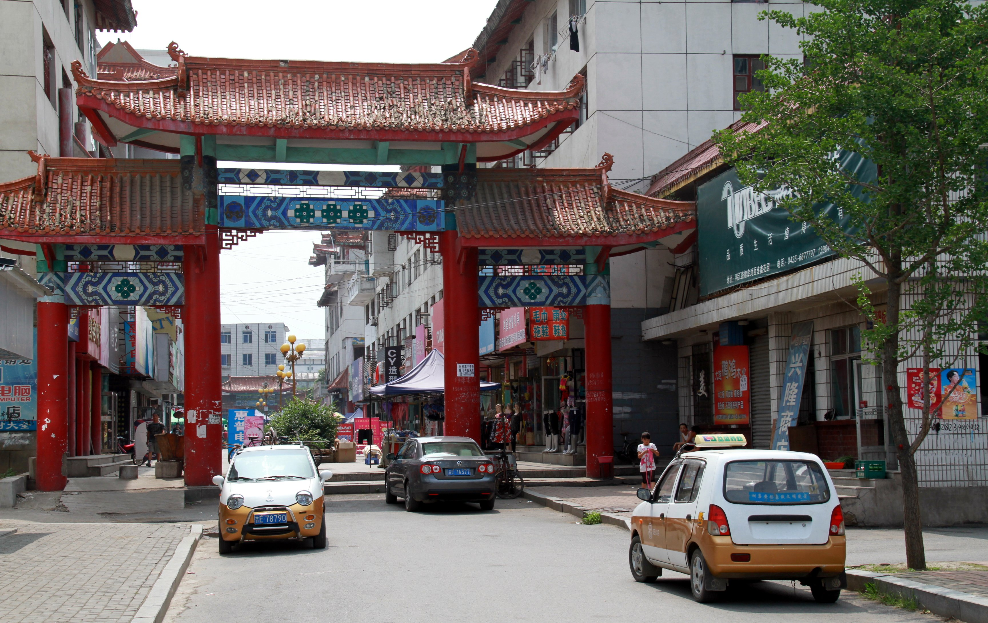 Photograph of a street scene in downtown Ji'an, Jilin Province, China.